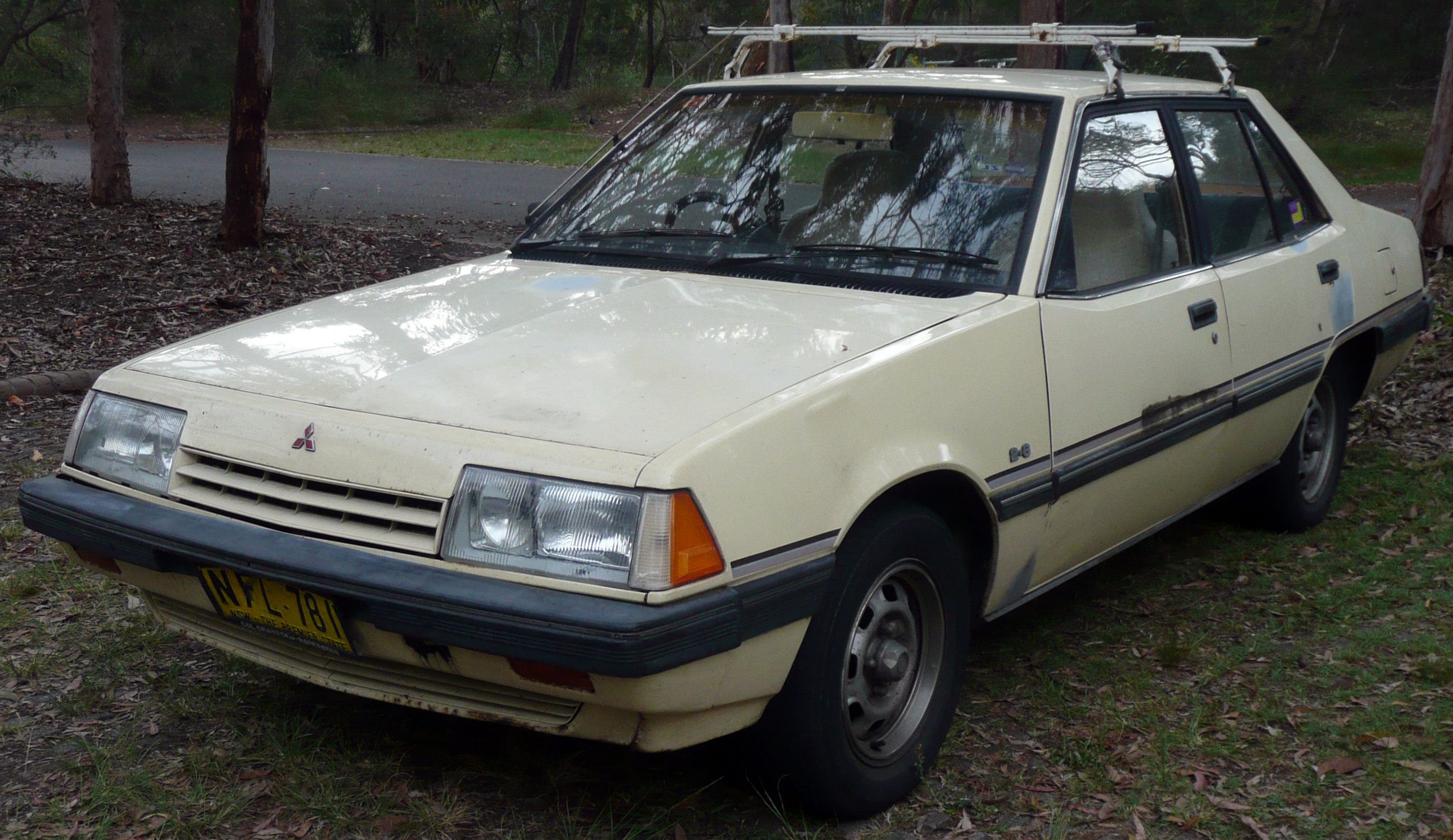 1984 Mitsubishi Sigma (GK) Satellite sedan. Photographed in Audley, New South Wales, Australia.